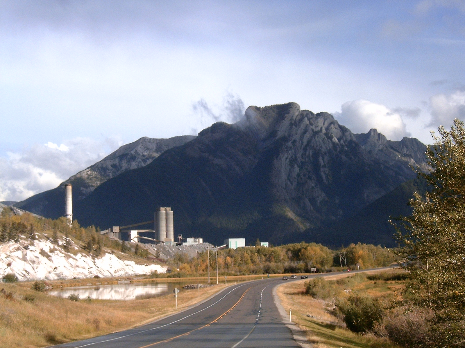 Heart Mountain and the Cement Plant at Exshaw, Alberta. Photo: G Larson